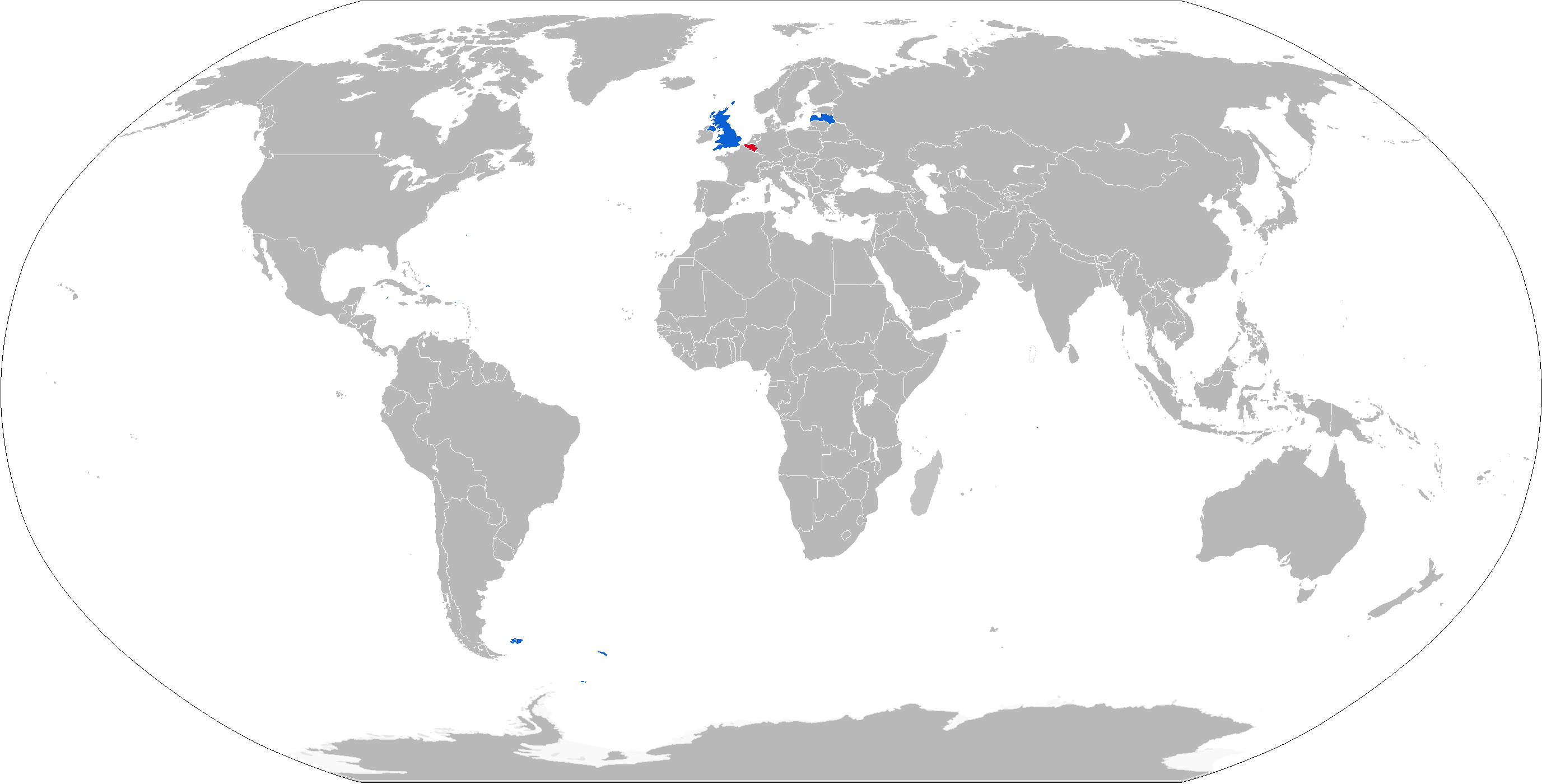 Map of FV107 operators in blue with former operators in red